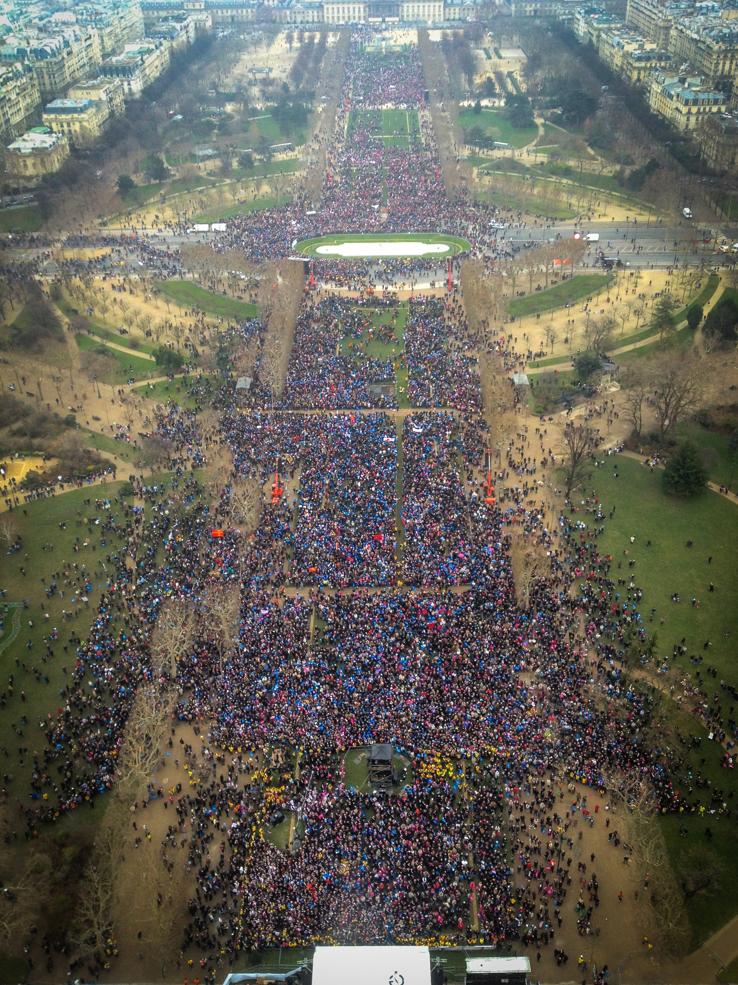 Demonstration against same-sex marriage in Paris, 13 January 2013.